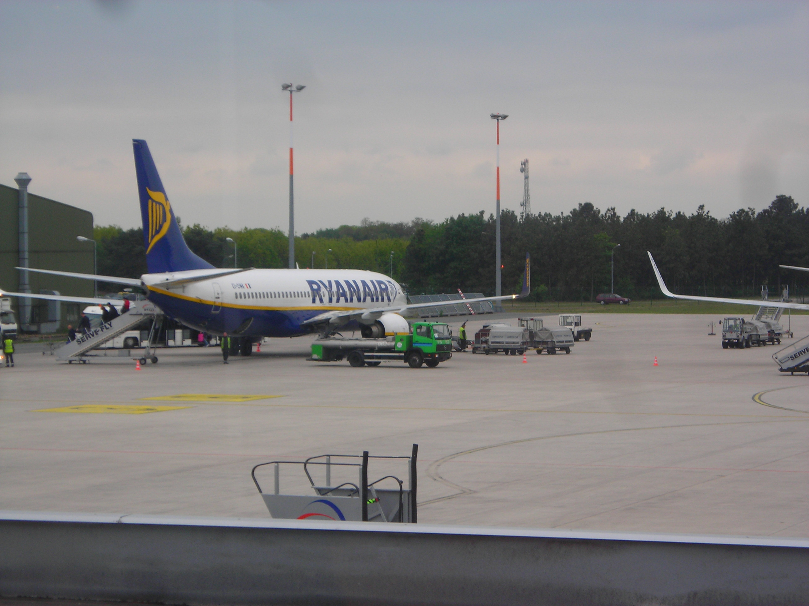 Look at parking places in Weeze